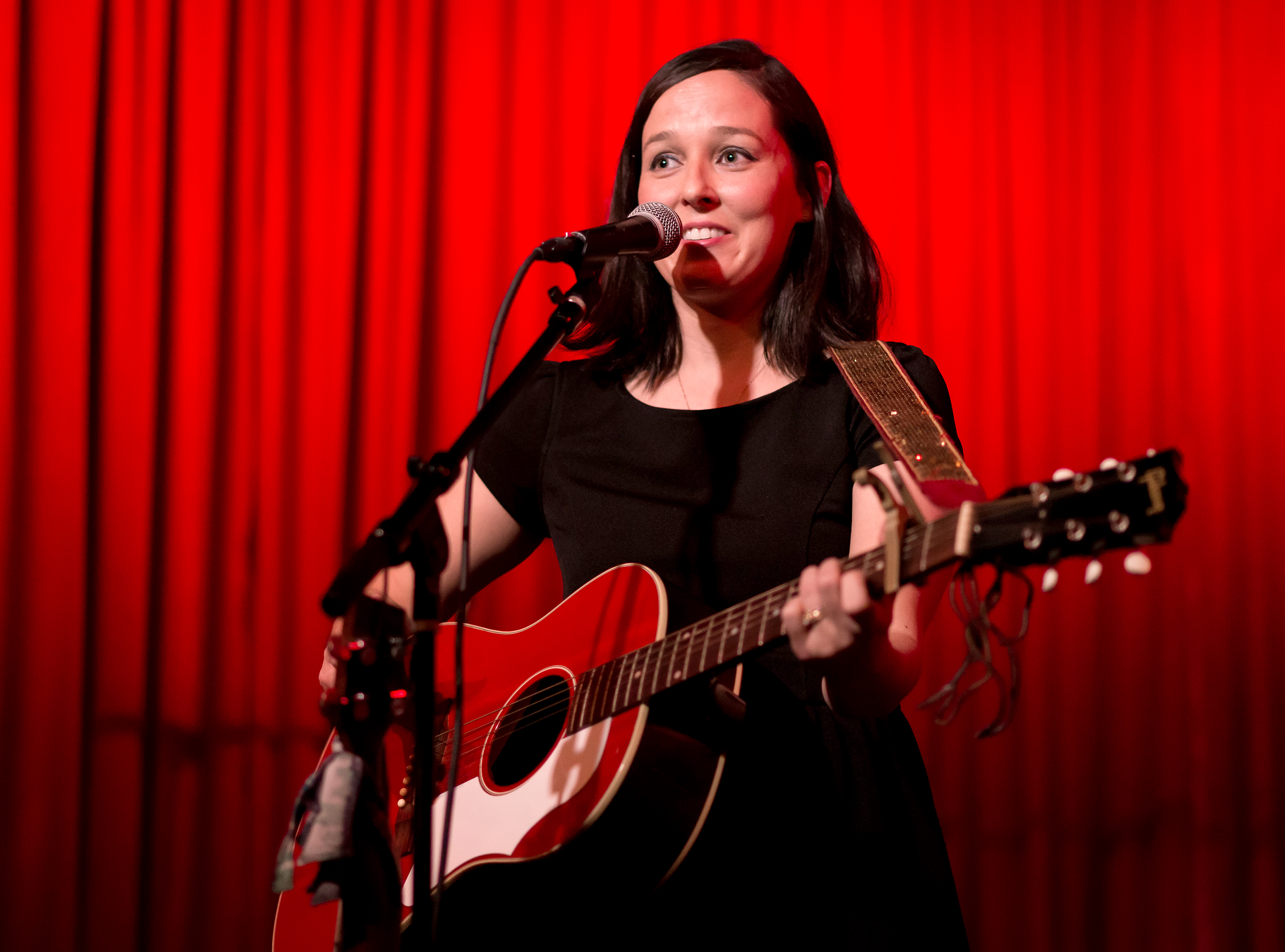 Meiko performing live at the Hotel Cafe in Hollywood, Los Angeles, California, on Saturday, January 13, 2018.